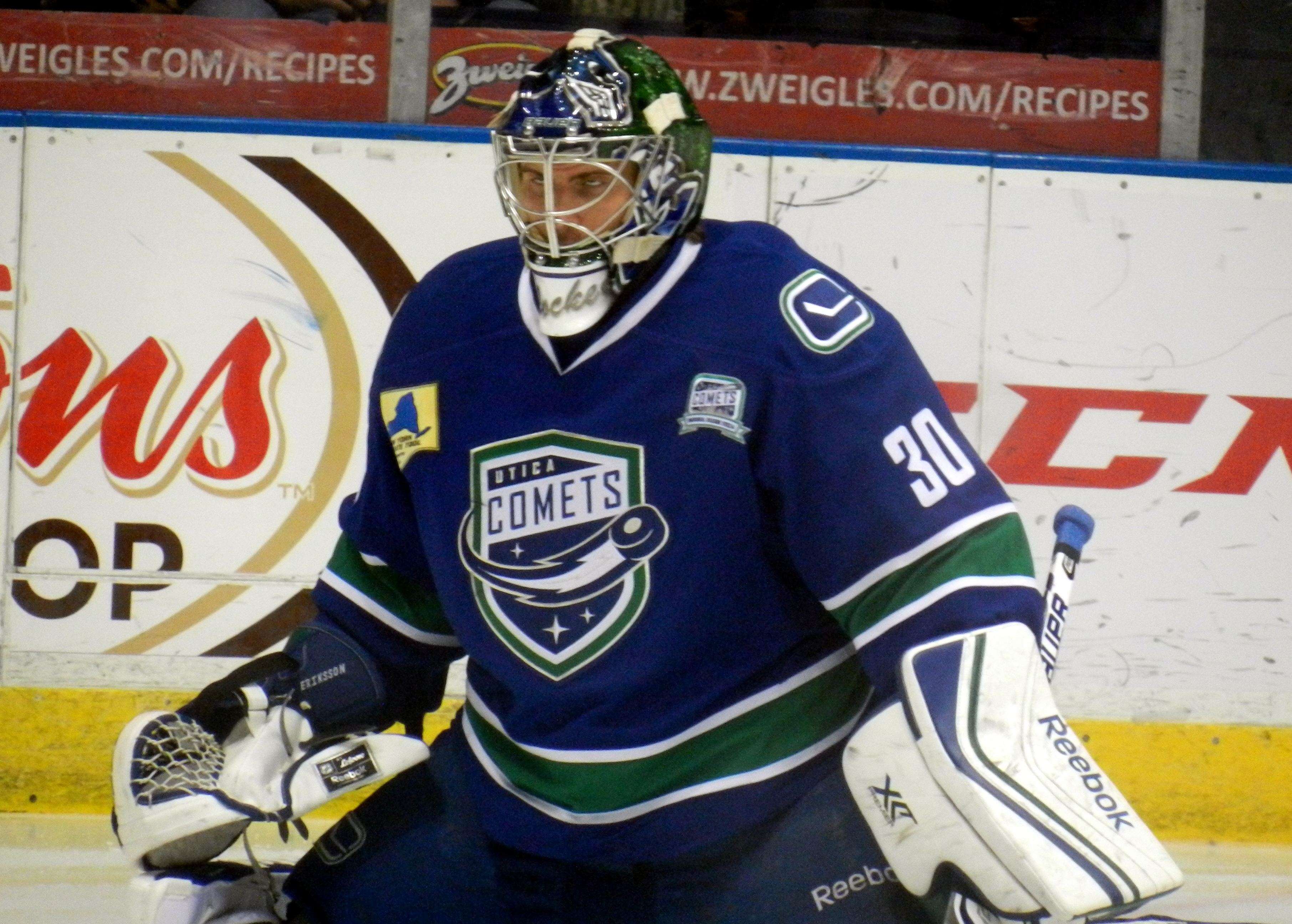 Joacim Eriksson stretching before a Utica Comets game during the 2013-14 AHL season